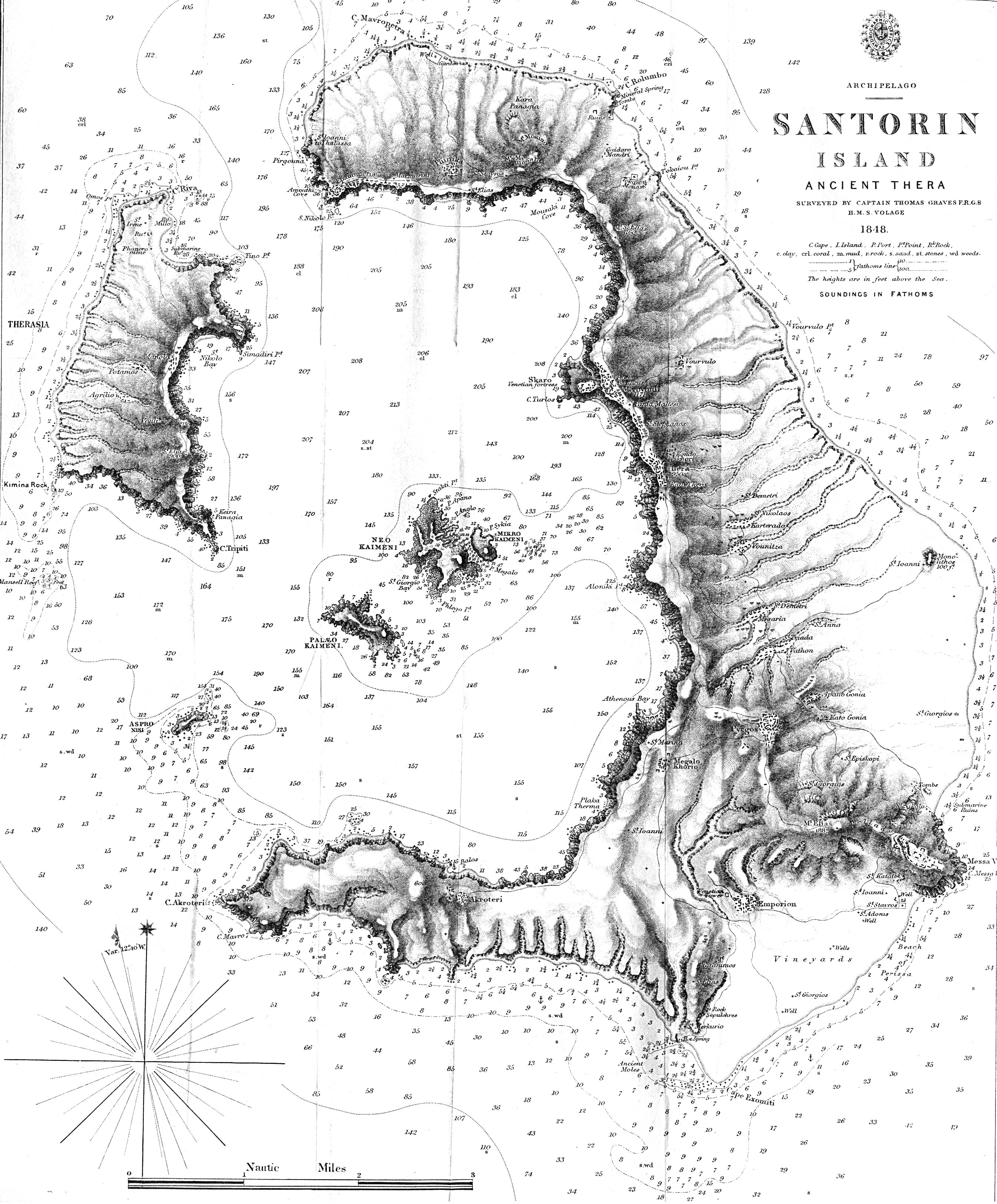 Map of the greek island Santorini from 1848 - "Santorin Island Ancient Thera Surveyed by Captain Thomas Graves F.R.G.S. H.M.S. Volage 1848" from The Journal of the Royal Geographical Society, Volume 20, 1850 to accompany "Some Account of the Volcanic Group of Santorin or Thera, once called Calliste, or the Most Beautiful. By Lieut. E. M. Leycester, R.N.". Full text of the JRGS article can be found on the Internet Artchive.